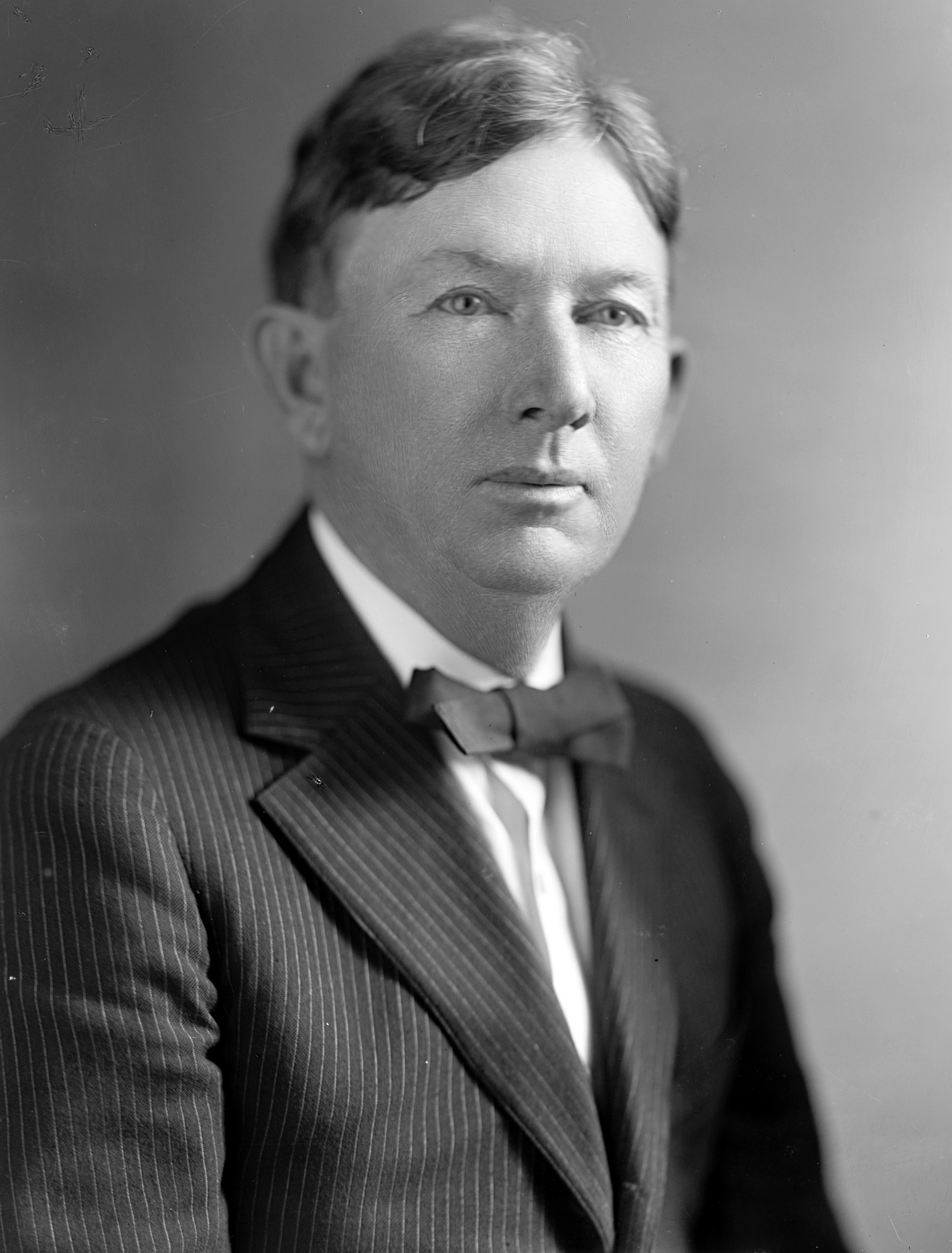 John H. Smithwick, US Representative from Florida